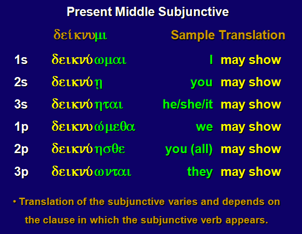 Greek: Present Middle Subjunctive of deiknumi